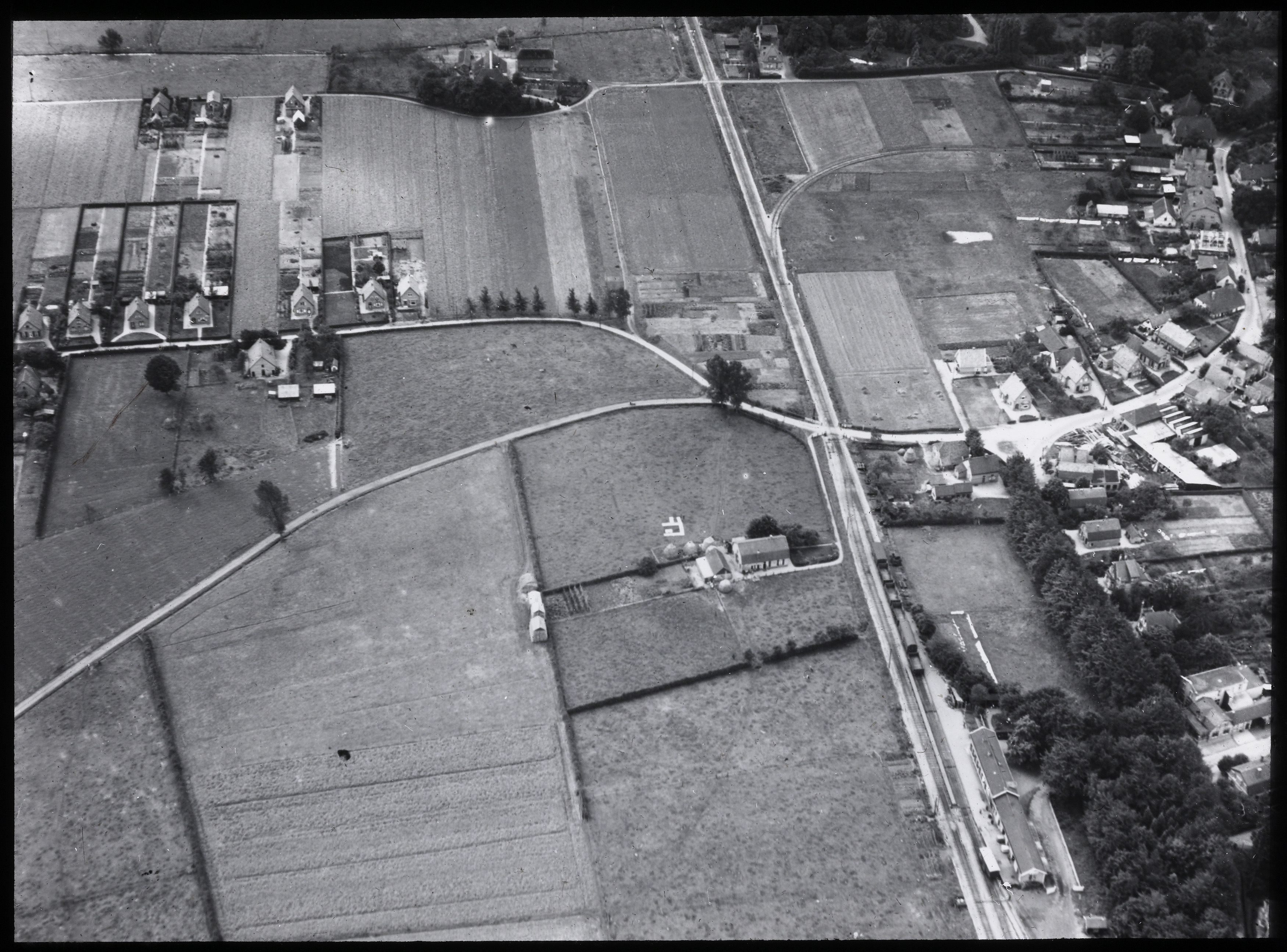 Aerial photograph of Vaassen train station and surroundings in The Netherlands.